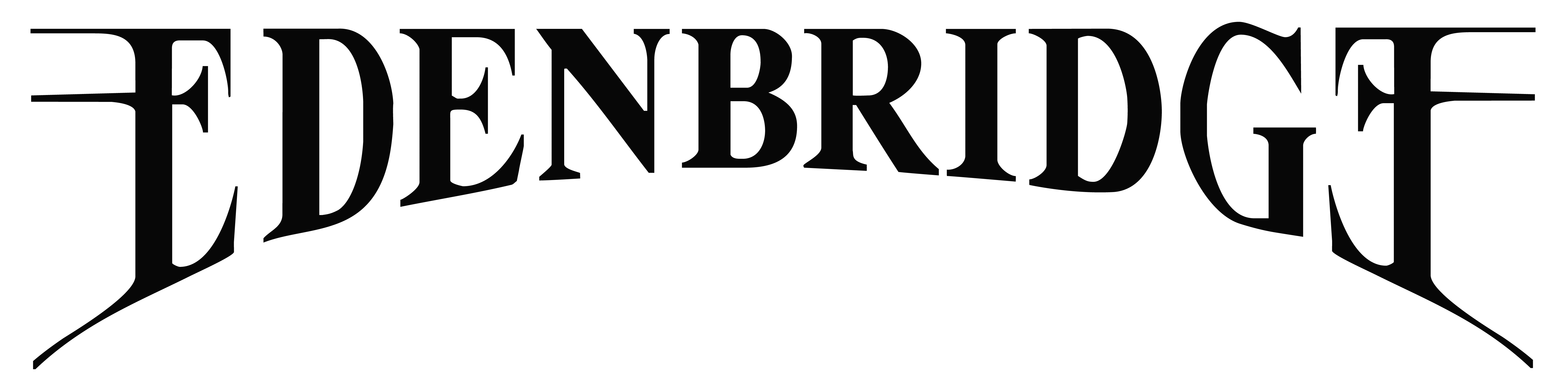 Logo of Edenbridge band.